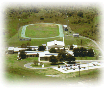 Aerial picture of W.T. Sampson High School, Guantamano Bay Cuba